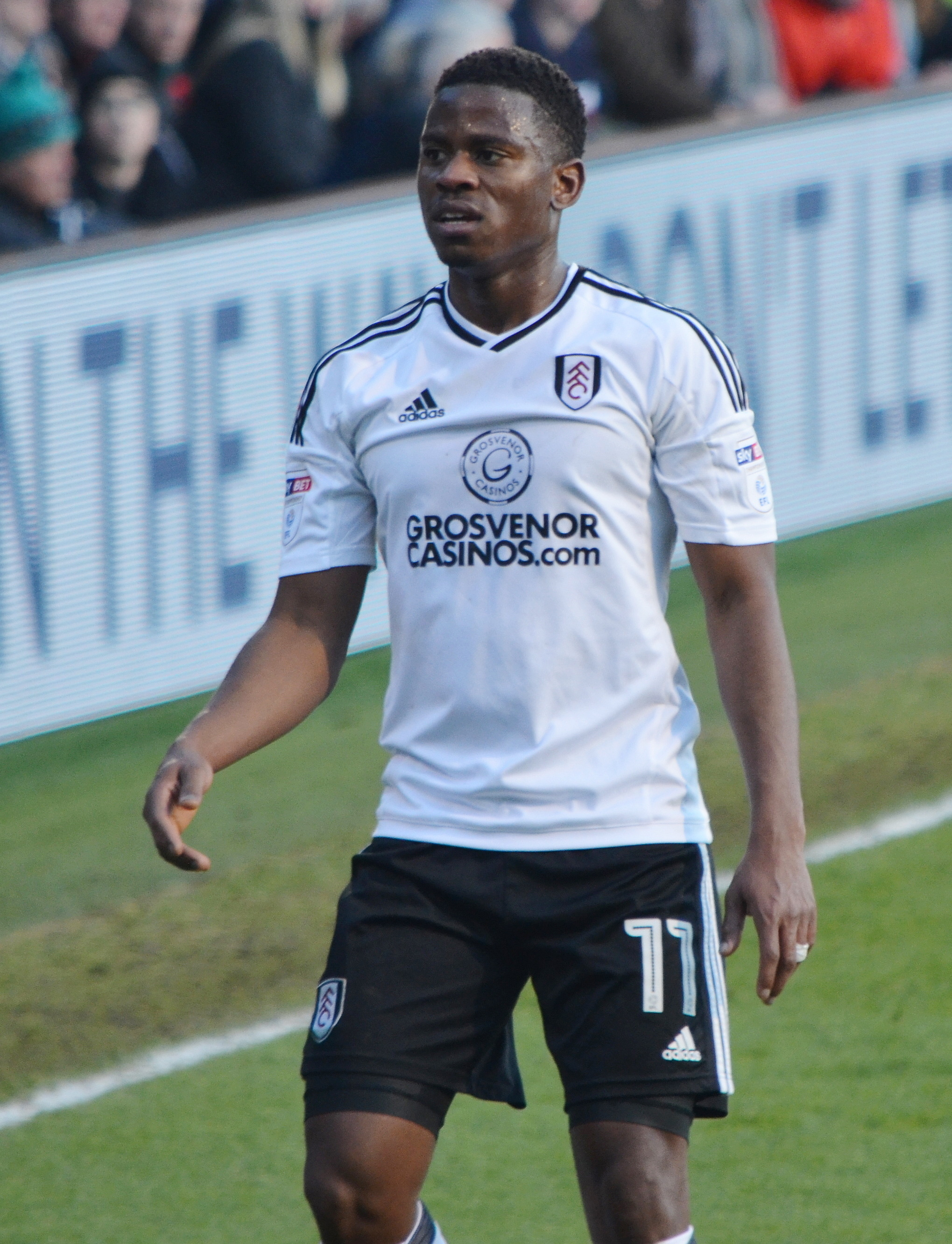 Floyd Ayite, Fulham FC